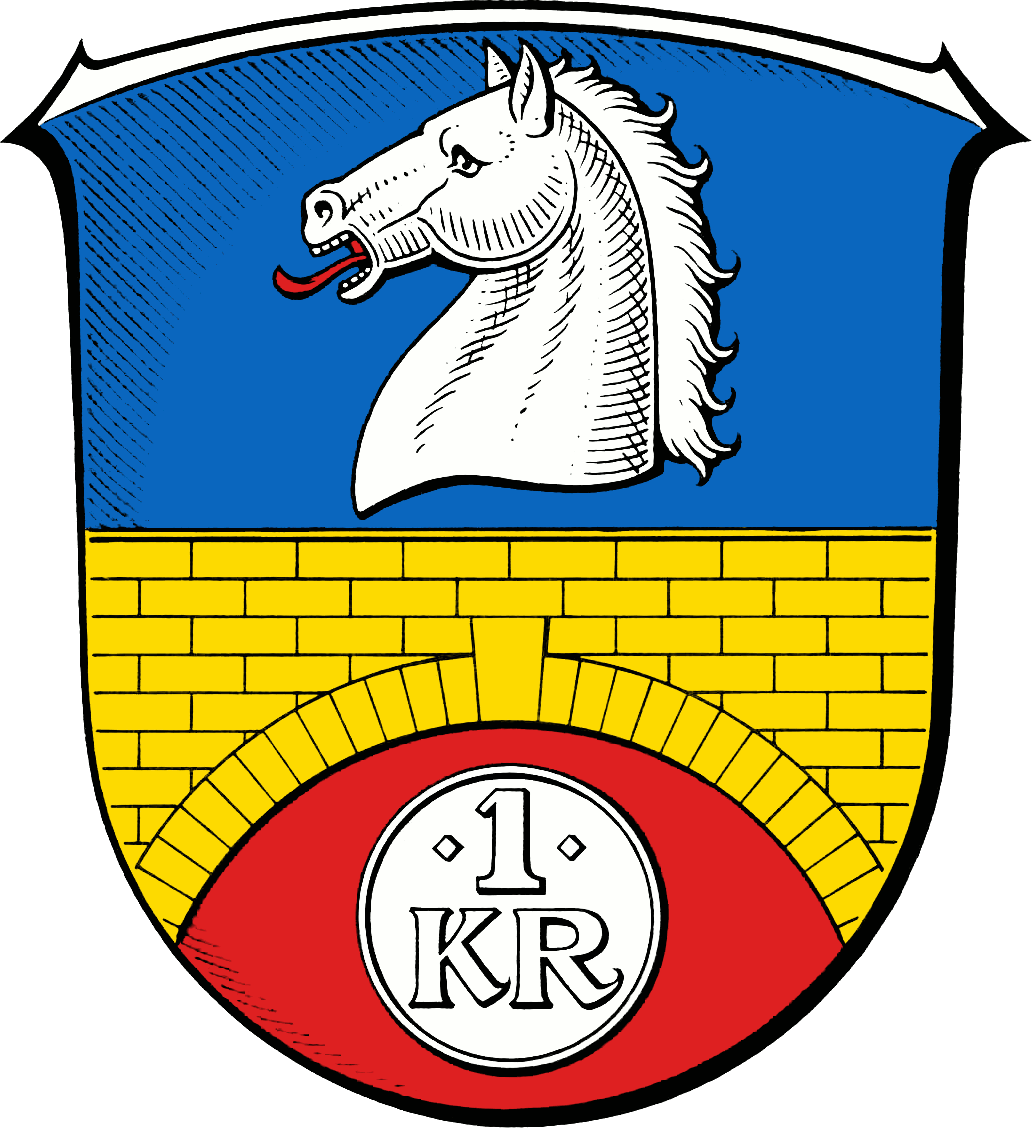 Coat of Arms of Lollar